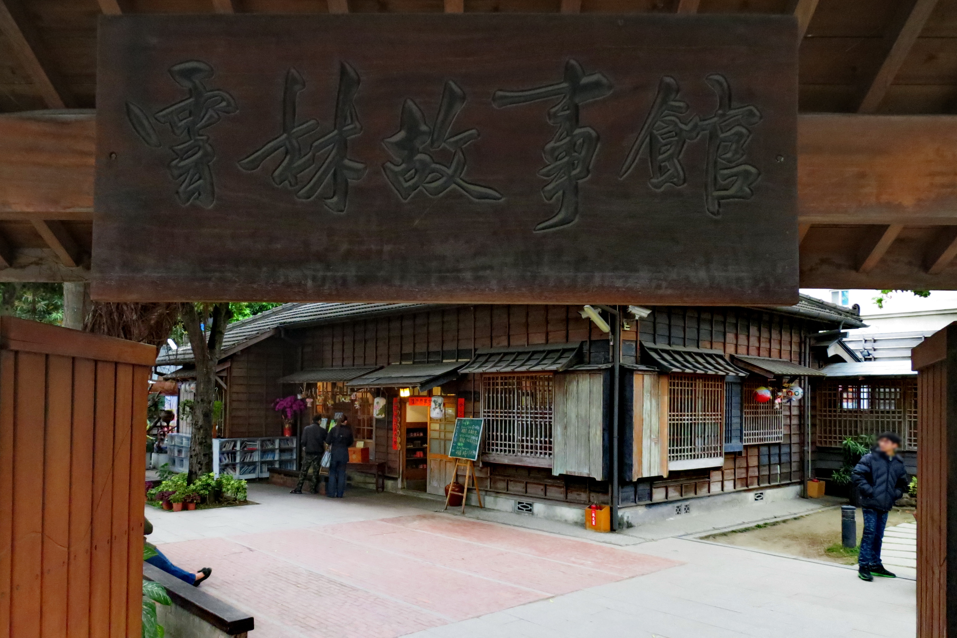 Residence of the Huwei County Magistrate (presently Yunlin Story House), No.528, Sec. 1, Linsen Road, Huwei, Yunlin, Taiwan.